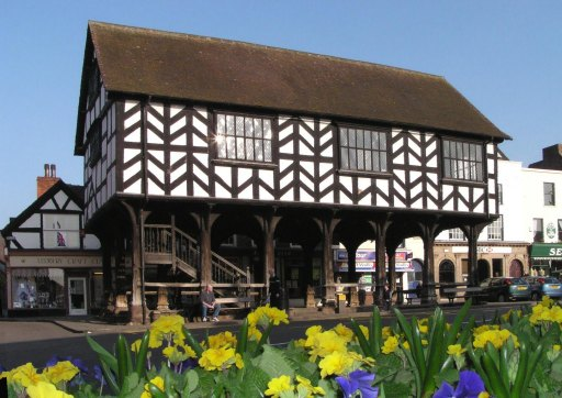 Ledbury Market House